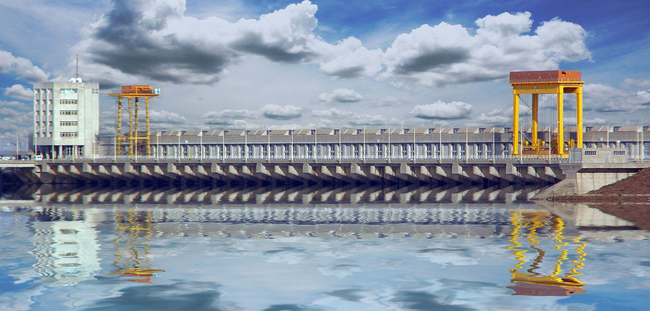 yacyreta dam